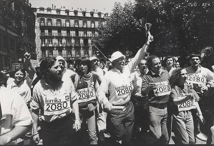 First edition of Korrika (1980)